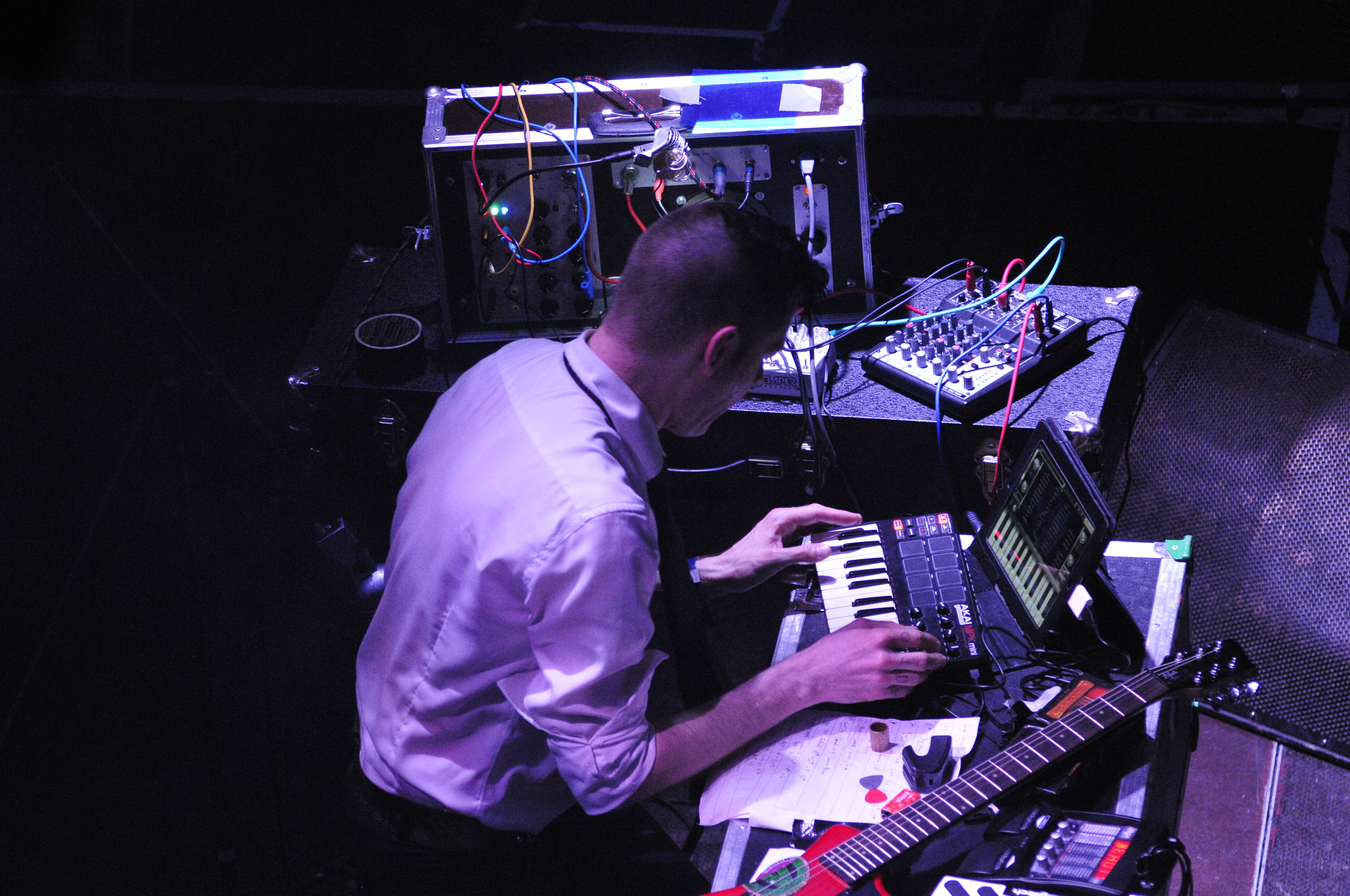 Andreas on synths at o2 Islington